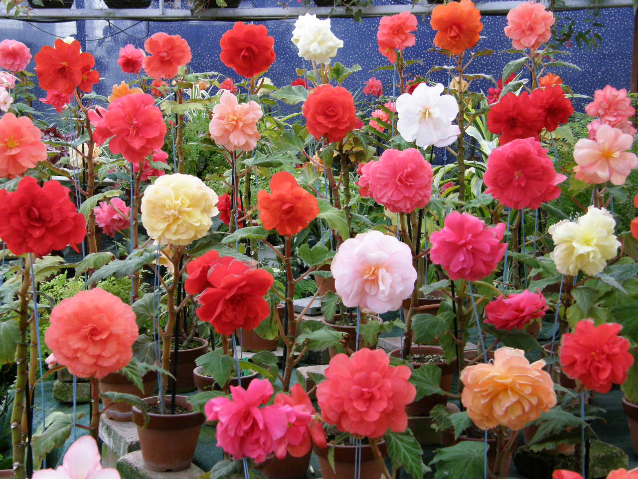 Begonia × tuberhybrida、 tuberous begonia 球根ベゴニア